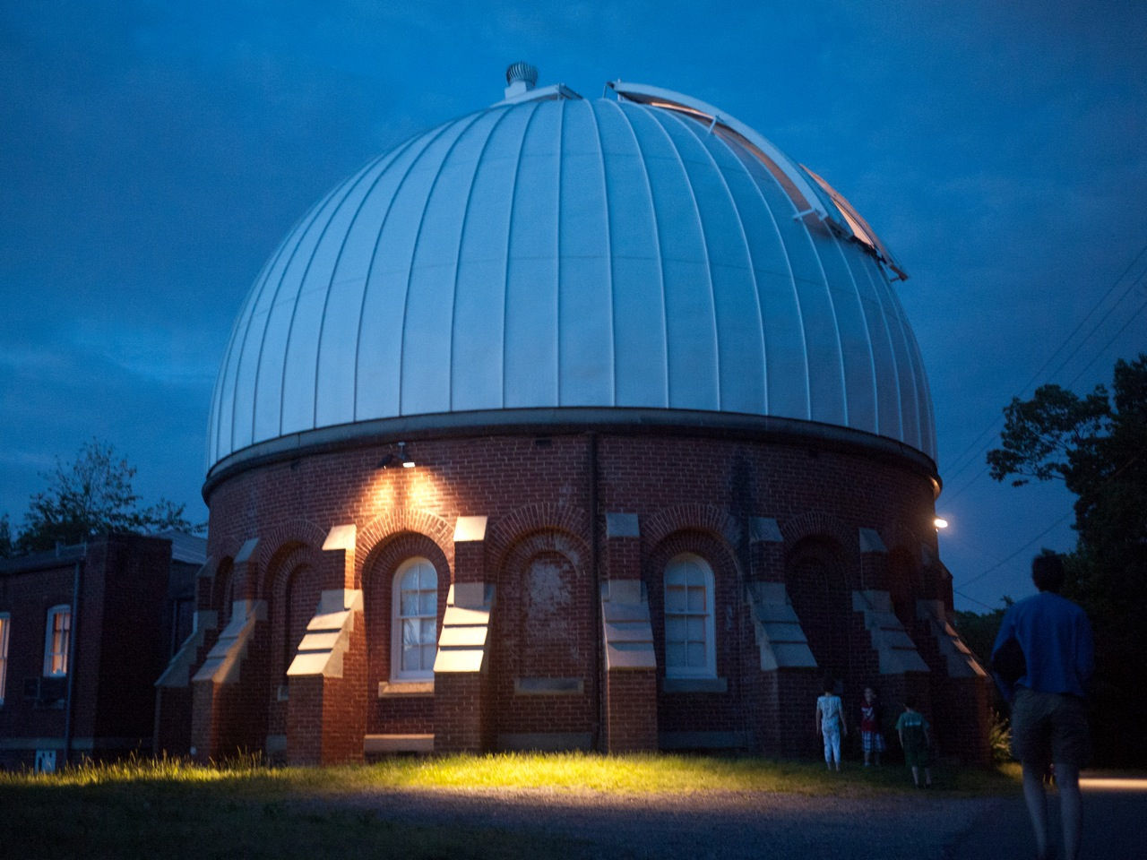 Dome of the Leander McCormick Observatory at night. The obsevatory has been build by Warner and Swasey Company 1882-1884 . It houses a 65 inch lens telescope. Loction: 600 McCormick Rd, Charlottesville, VA 22904, Vereinigte Staaten 38° 1′ 58.2″ N, 78° 31′ 20.4″ W